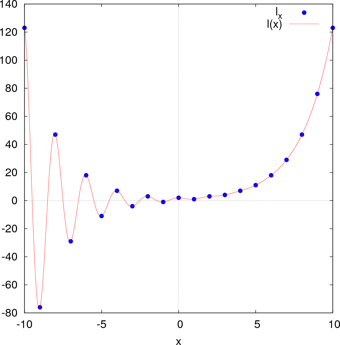 Plot of Lucas numbers function on a continuous variable.